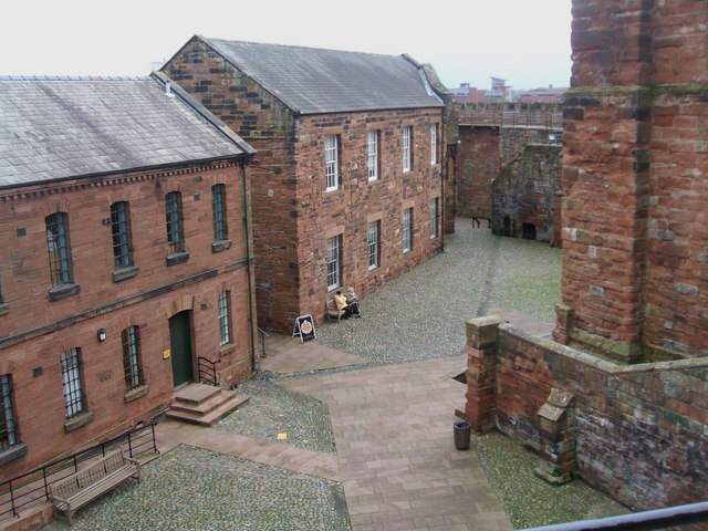 The Inner Ward, Carlisle Castle The building top centre is the Regimental Museum of the Border Regiment.